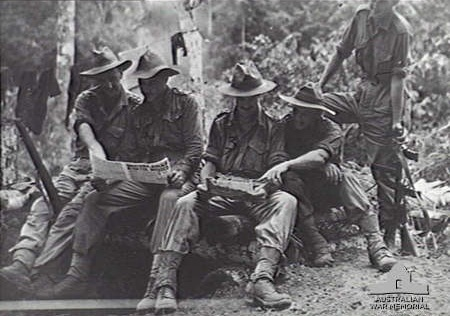 Officers from 'D' Company, 2/3rd Infantry Battalion, Australian 6th Division, New Guinea, 7 April 1945